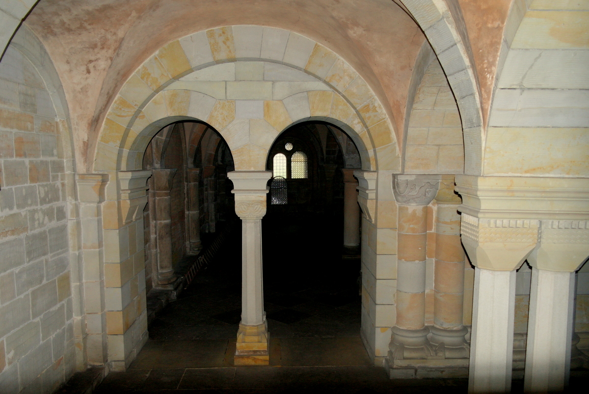 Doksany Convent, Doksany 1, Doksany. The crypt of the monastery church is one of the most important Romanesque monuments in the country.